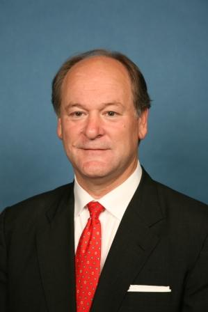 Bobby Bright, member of the United States House of Representatives.